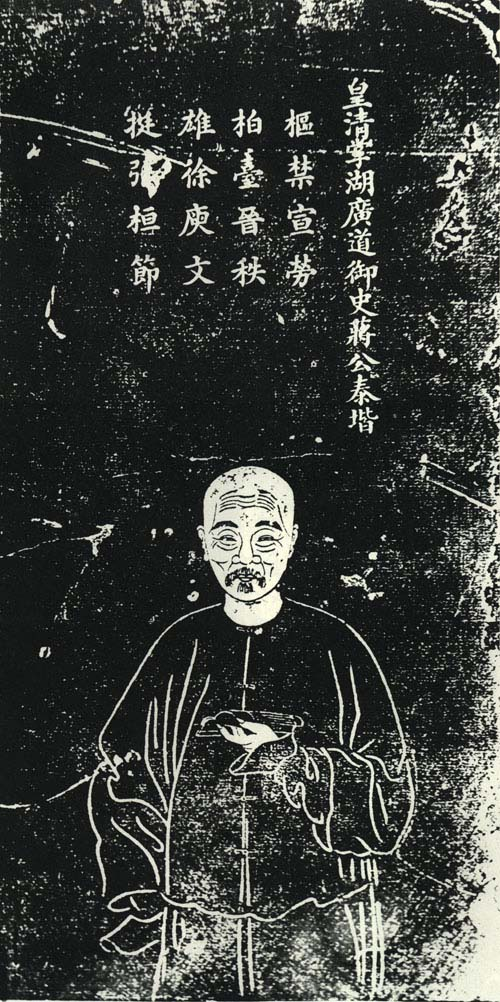 Jiang Taijie, scholar of the Qing Dynasty.